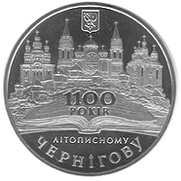 Coin of Ukraine